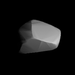 3D convex shape model of 1050 Meta, computed using light curve inversion techniques. J. Hanuš, J. Ďurech, M. Brož, B. D. Warner (June 2011). "A study of asteroid pole-latitude distribution based on an extended set of shape models derived by the lightcurve inversion method". Astronomy and Astrophysics 530: A134. ISSN 0004-6361. arXiv